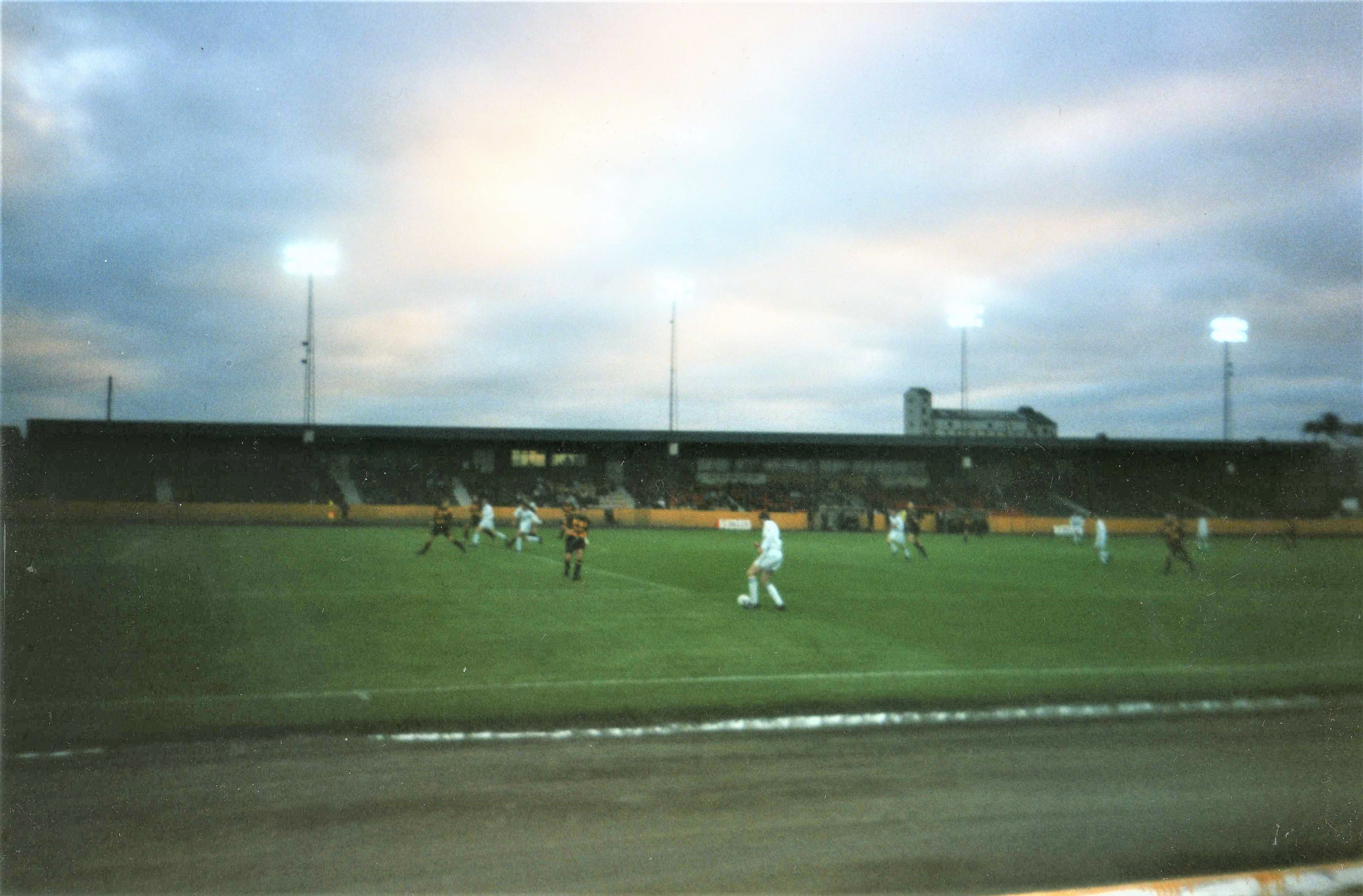 Play during Berwick v Alloa (reduced brightened version of Image:Scan168.jpg)